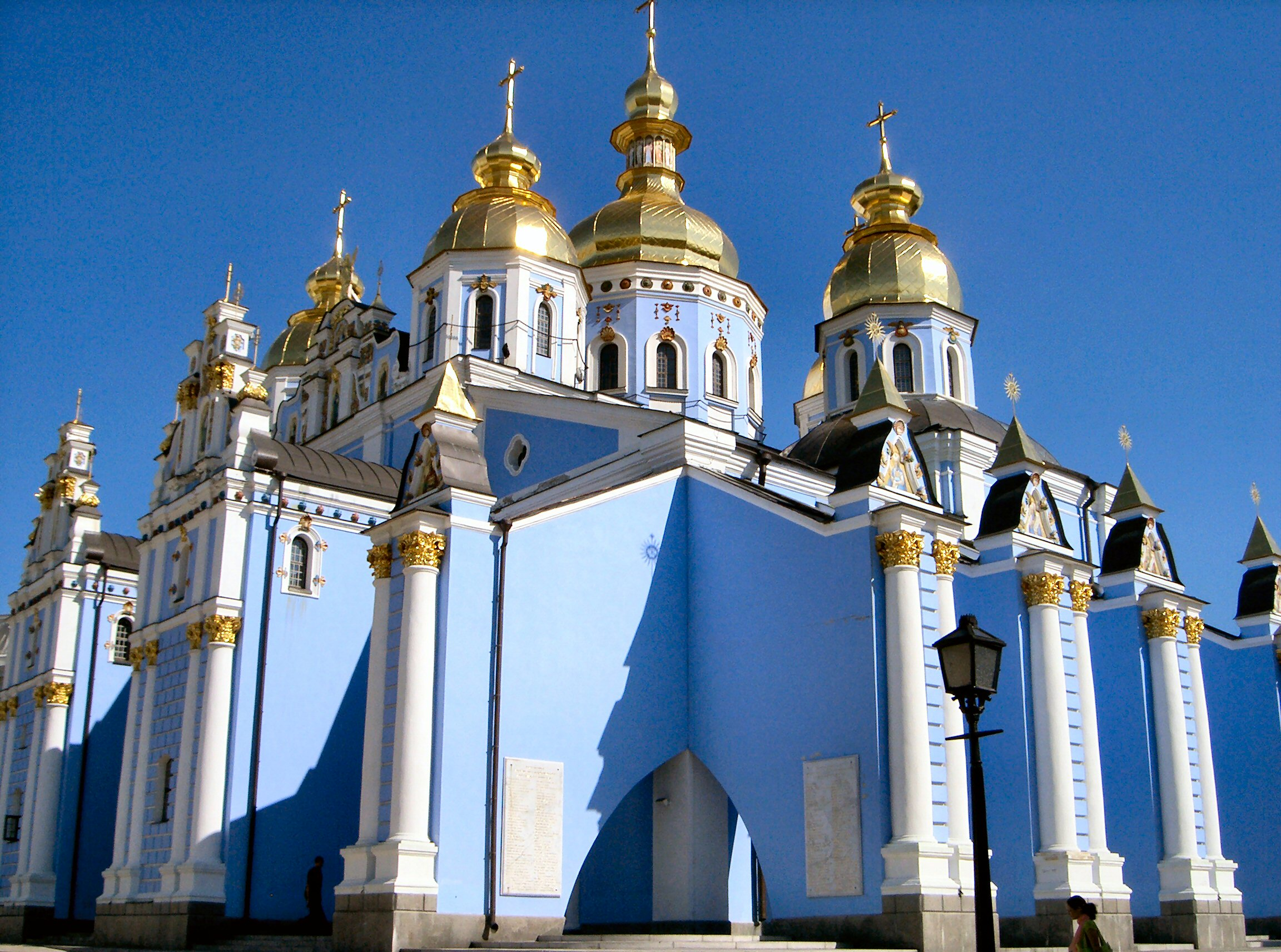 Kiev LavraClassic view of St Michael's Church, Kiev